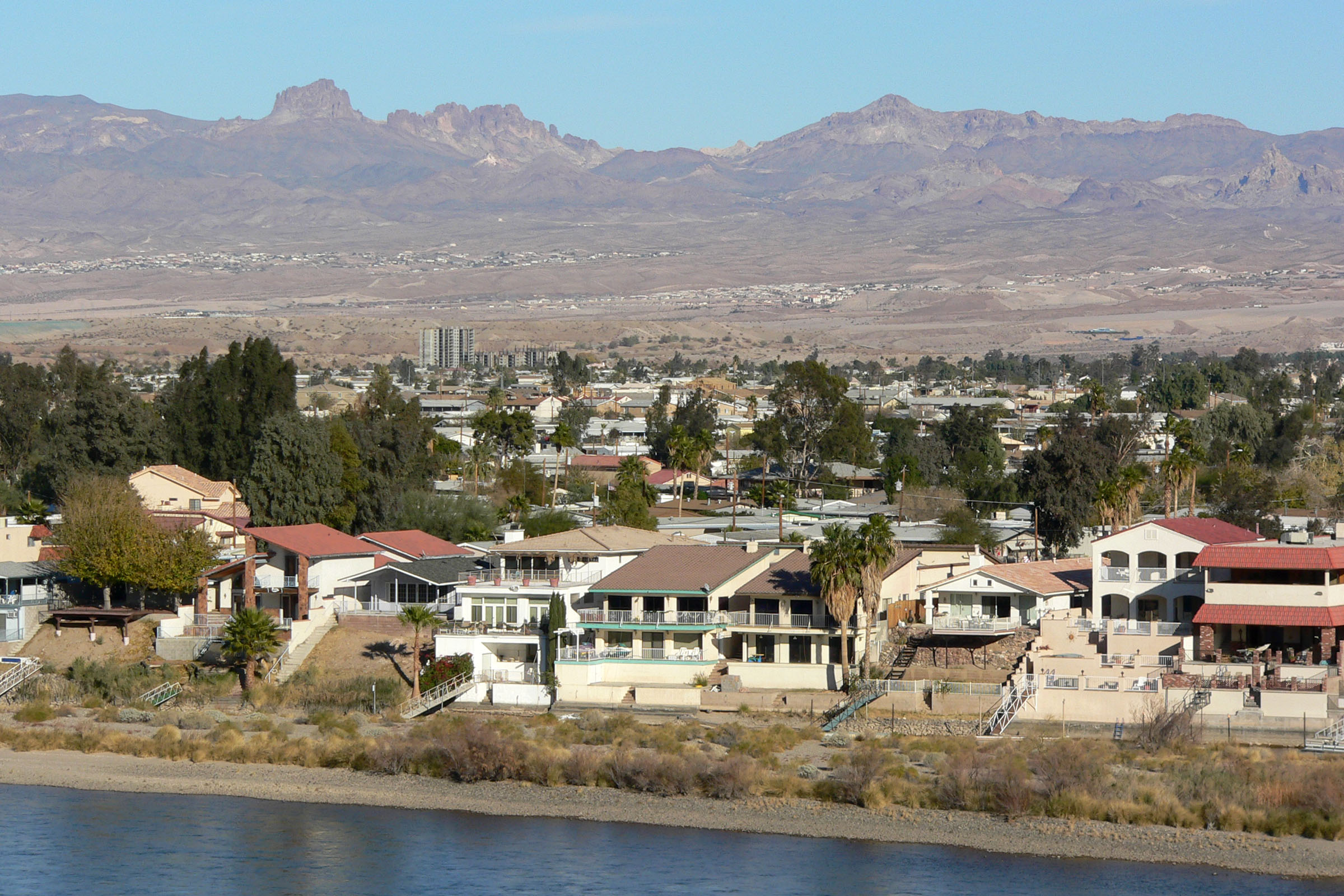 Bullhead City, Arizona seen from Nevada side of river